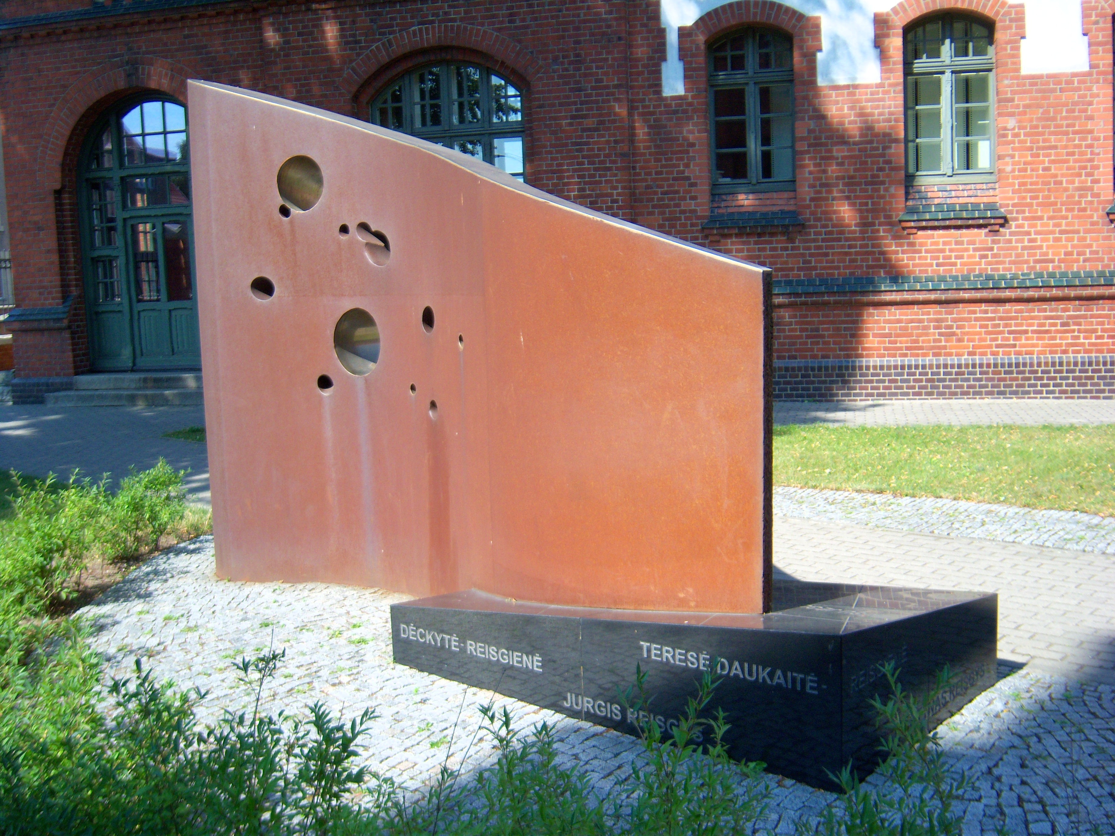 Monument to Reisgys family, by Klaipėda University, Lithuania